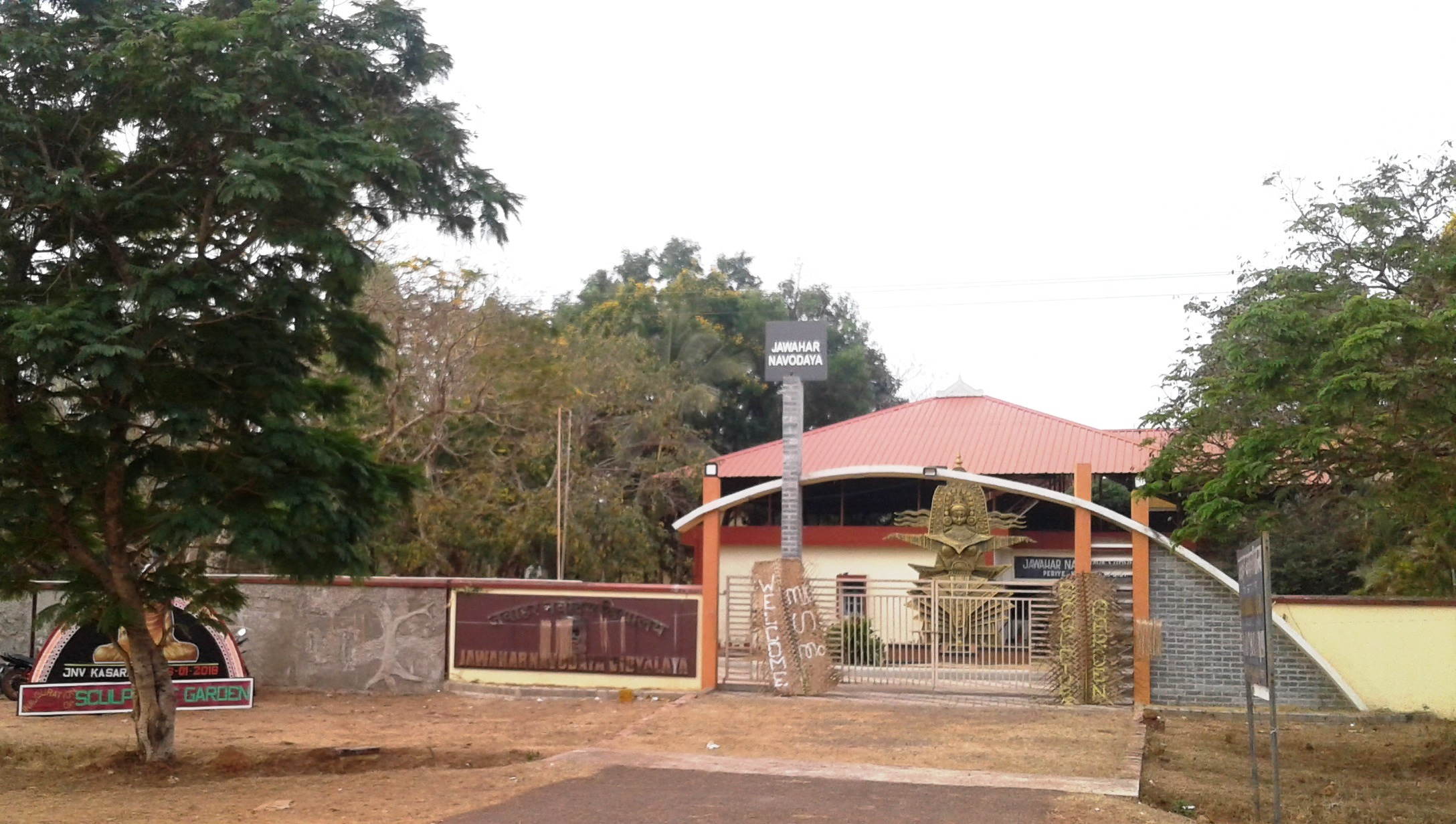 Periya junction, Kasaragod - Kanhangad road, Kasaragod District, Kerala state, India.